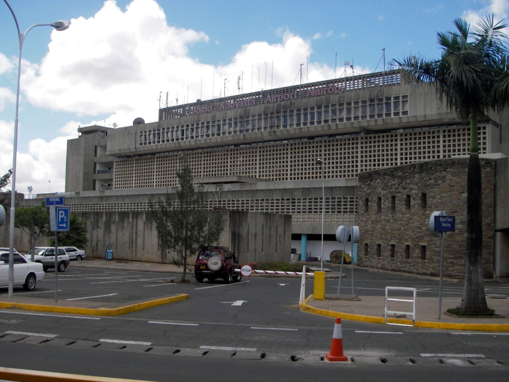 Photograph of the Jomo Kenyatta Airport Nairobi, Kenya.